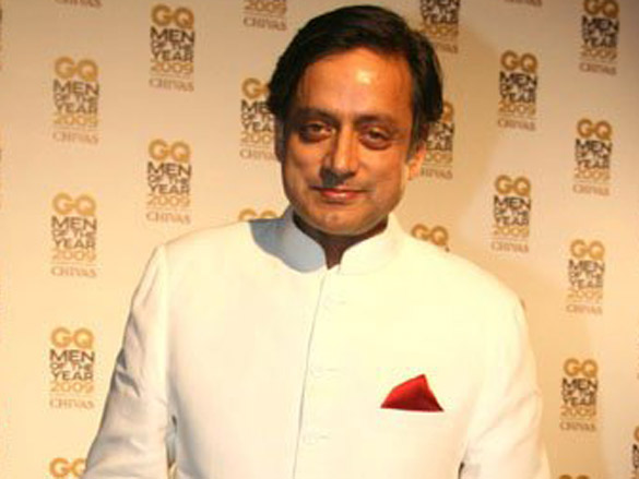 Indian politician Shashi Tharoor